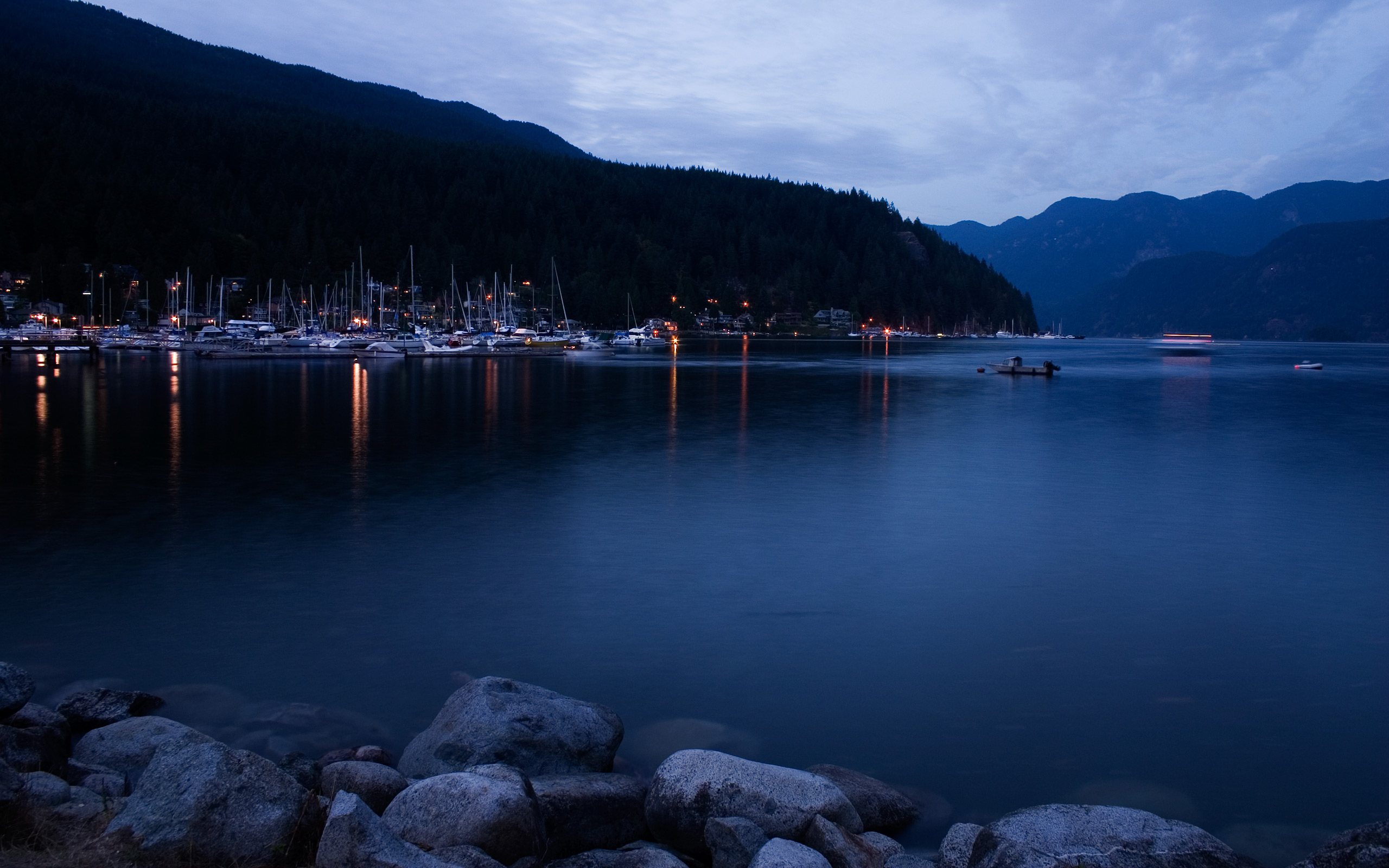 Deep Cove at Dusk in North Vancouver. Photograph by Tim Hollosy